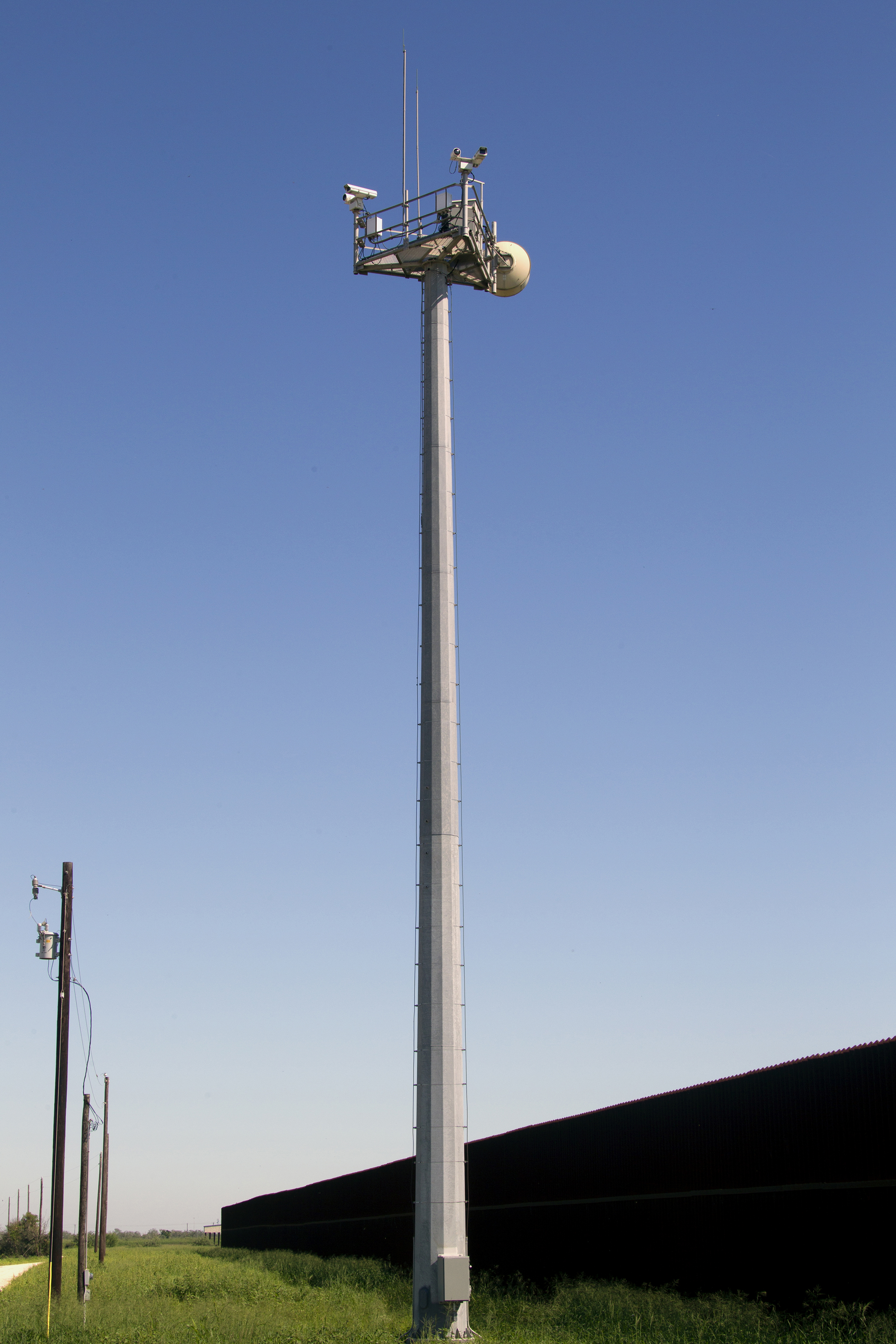 South Texas Border fence line and remote surveillance camera taken on September 24, 2013. Photographer: Donna Burton